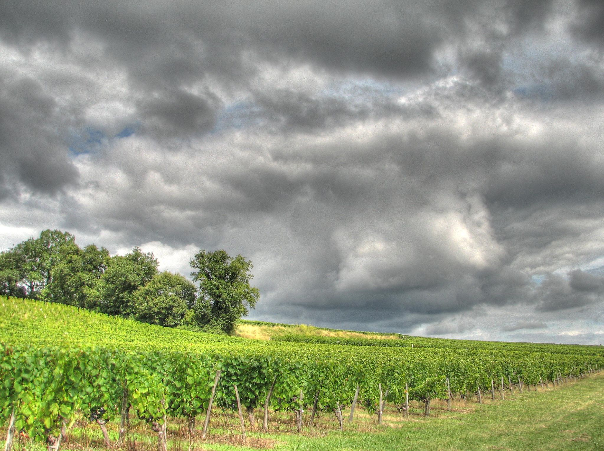 French vineyards in the Bourg AOC of Bordeaux on the right bank.